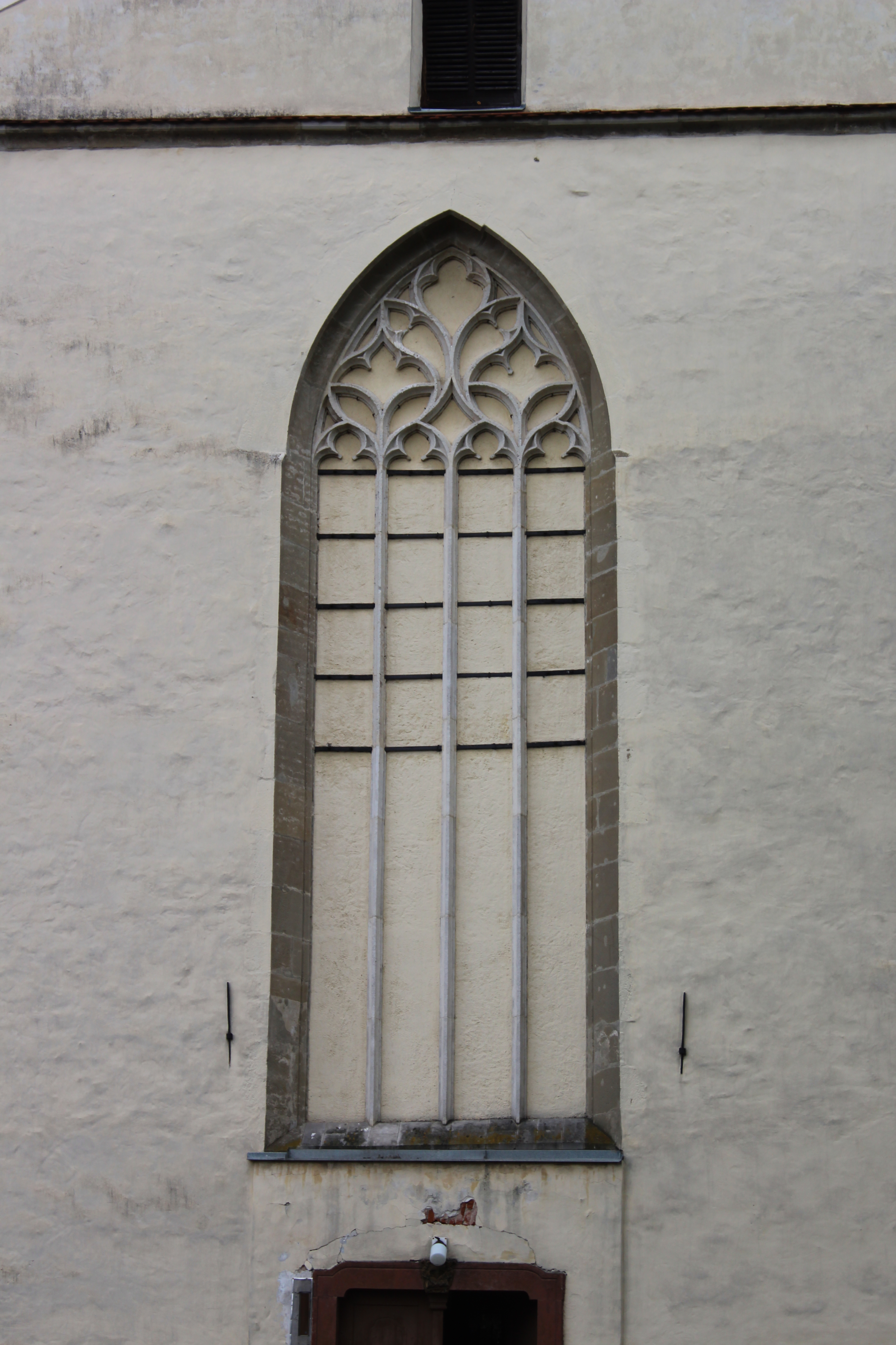 Objavené zamurované gotické okno